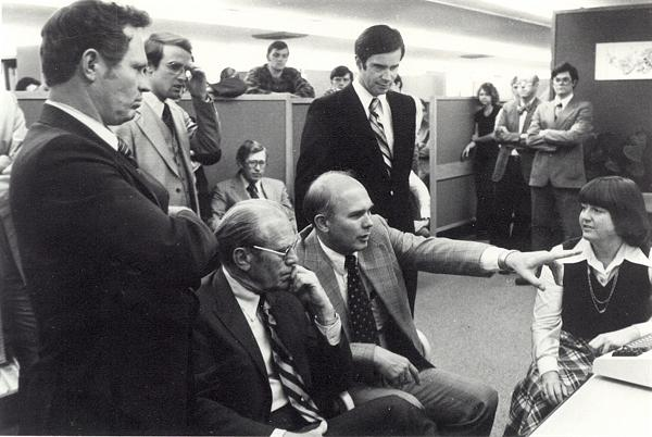 This is an image with iconic status and historical importance. The photo subsequently appeared in news outlets and was distributed freely to Institute personnel as well as friends and relatives who requested a copy.